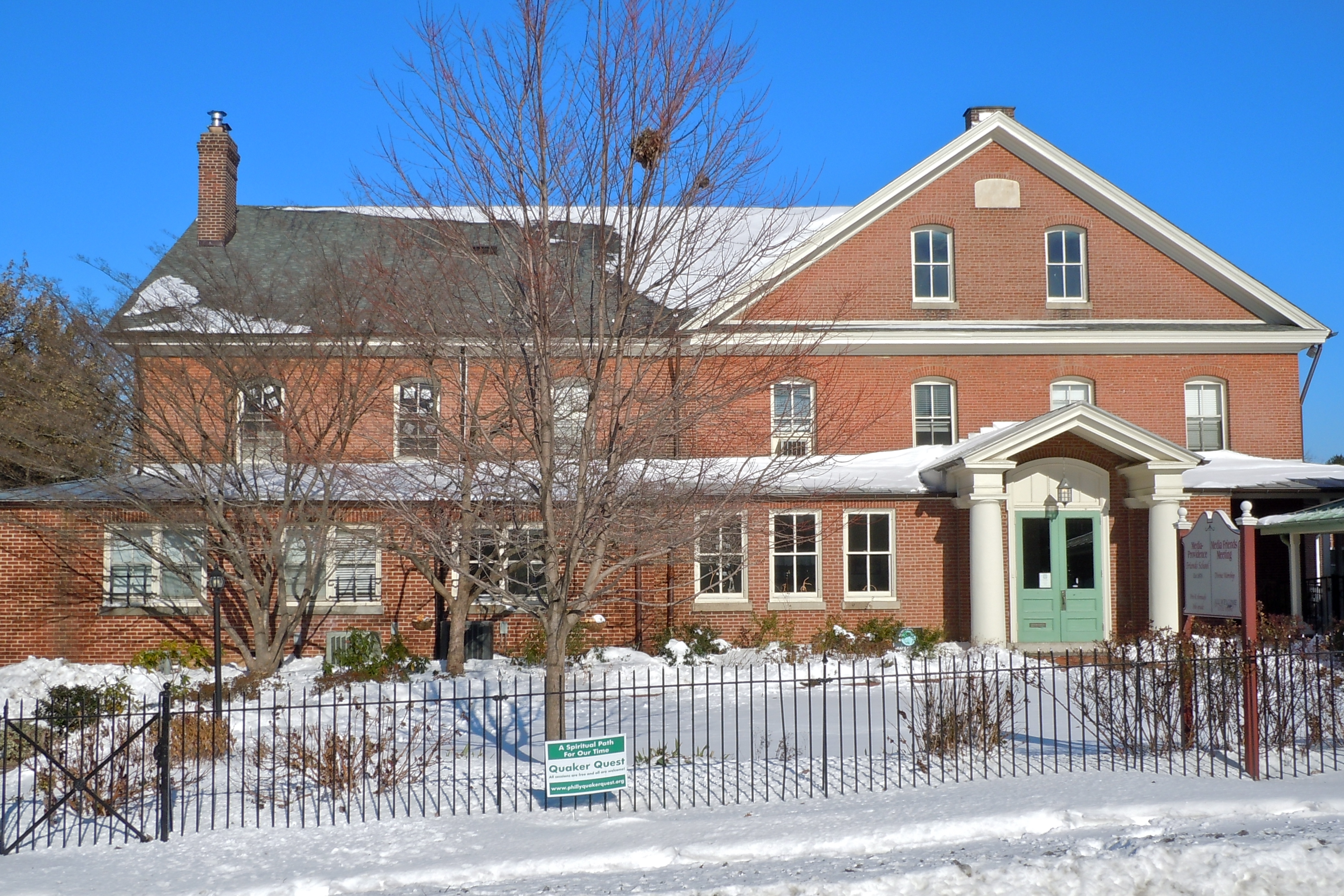 Media (Pennsylvania) Friends Meeting House, in Media, PA. Building from 1885? The meeting itself moved to Media in the 1870s from Chester, PA where its history goes back to 1681 (before Wm Penn arrived in PA) where it was the first organized Quaker Meeting in PA